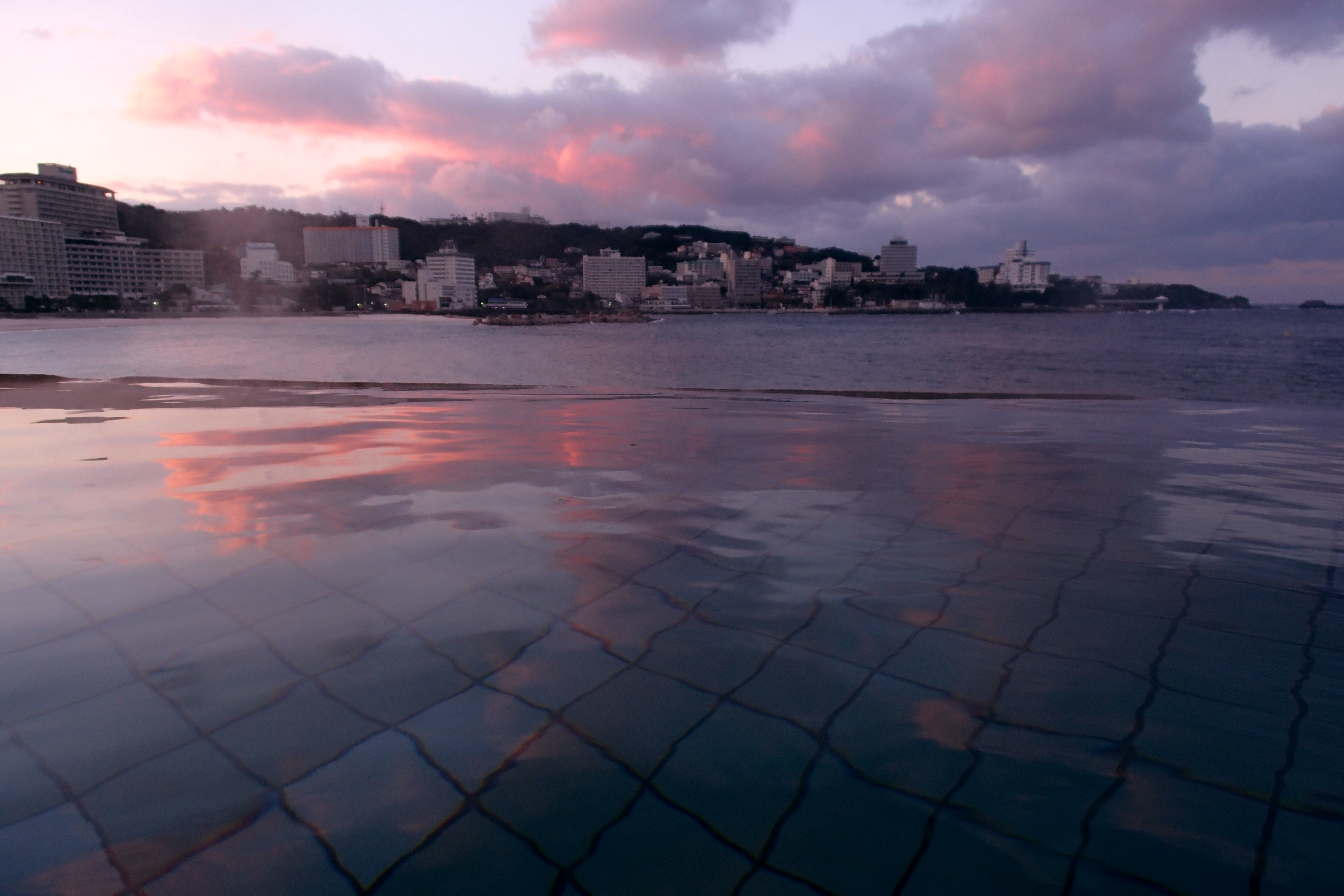 Nanki-Shirahama Onsen in Shirahama, Wakayama prefecture, Japan.